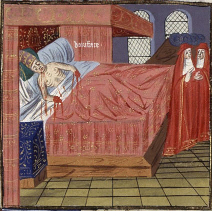 Bonifacius VIII